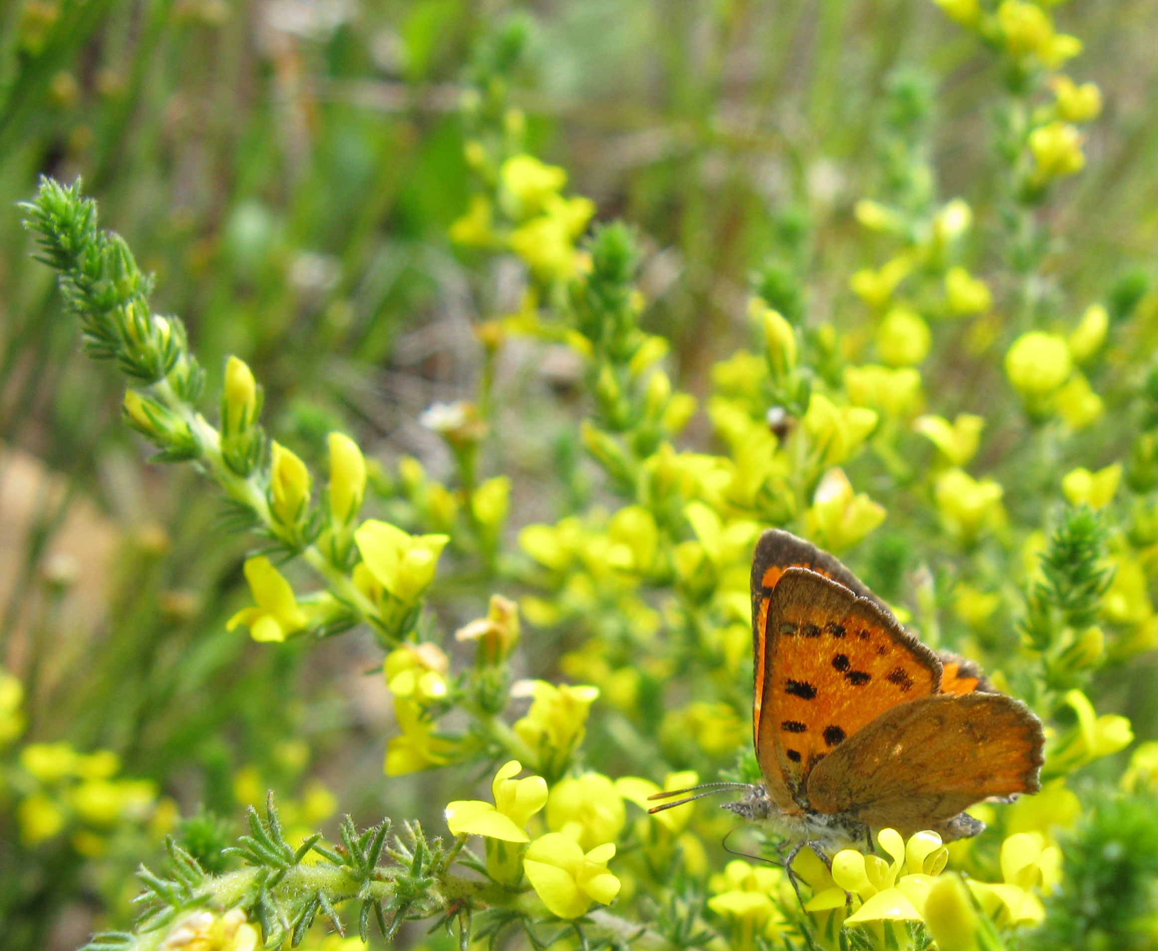 Copper Butterfly, family Lycaenidae, Genus Chrysoritis, visiting probably Aspalathus ericifolia